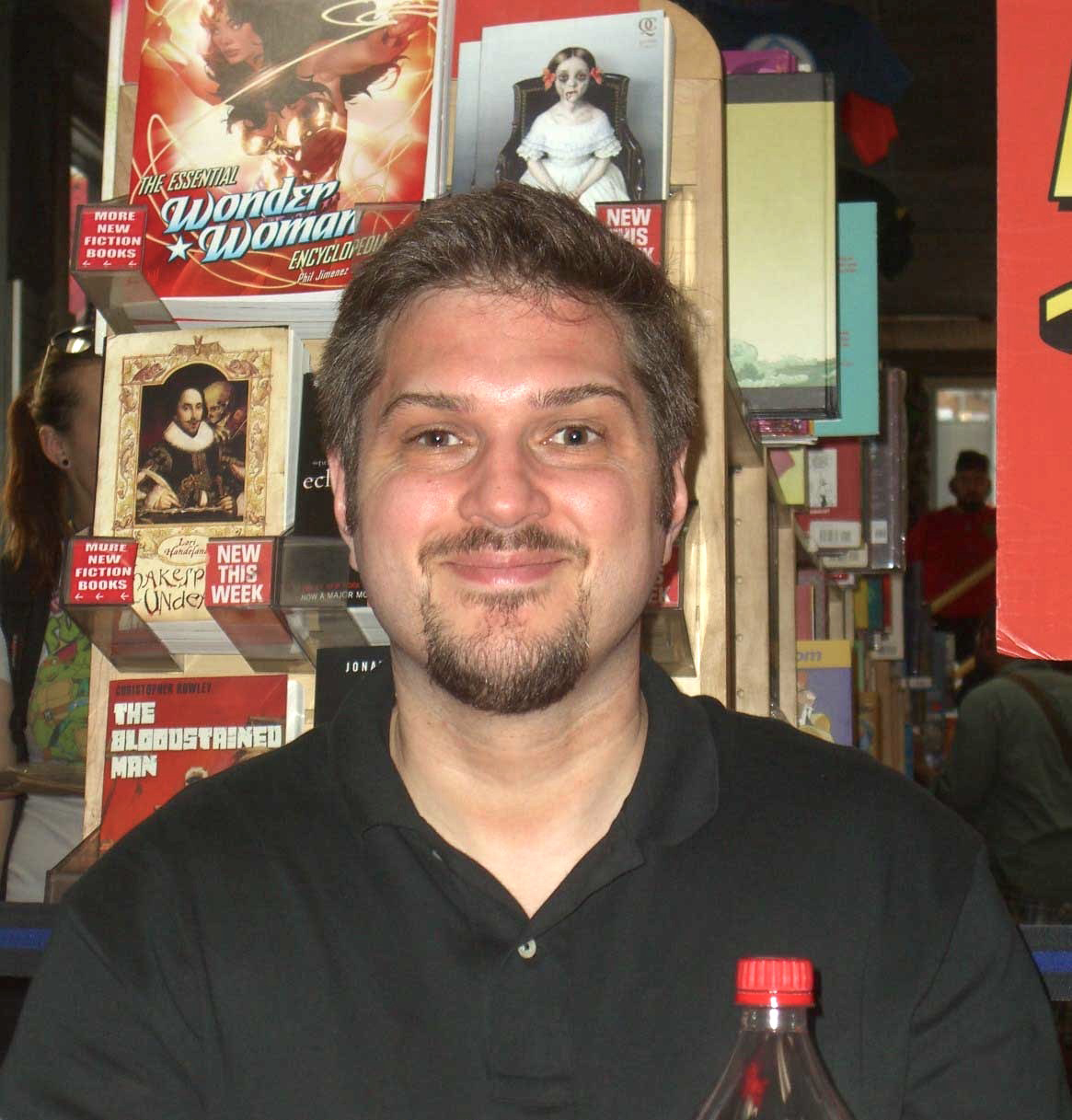 Writer Christos Gage at a book signing at Midtown Comics Times Square in Manhattan, June 21, 2010. Photo by Luigi Novi. This photo may be used and modified, for any purpose, only if the photographer is visibly credited in each instance in which it is used. (See licensing information below.) For more information on my photos, you can contact me here.